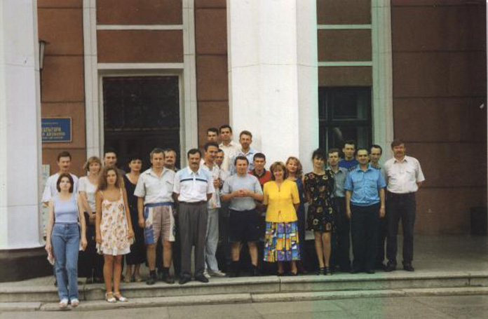 All students, Vinnitsa, Ukraine, 1999